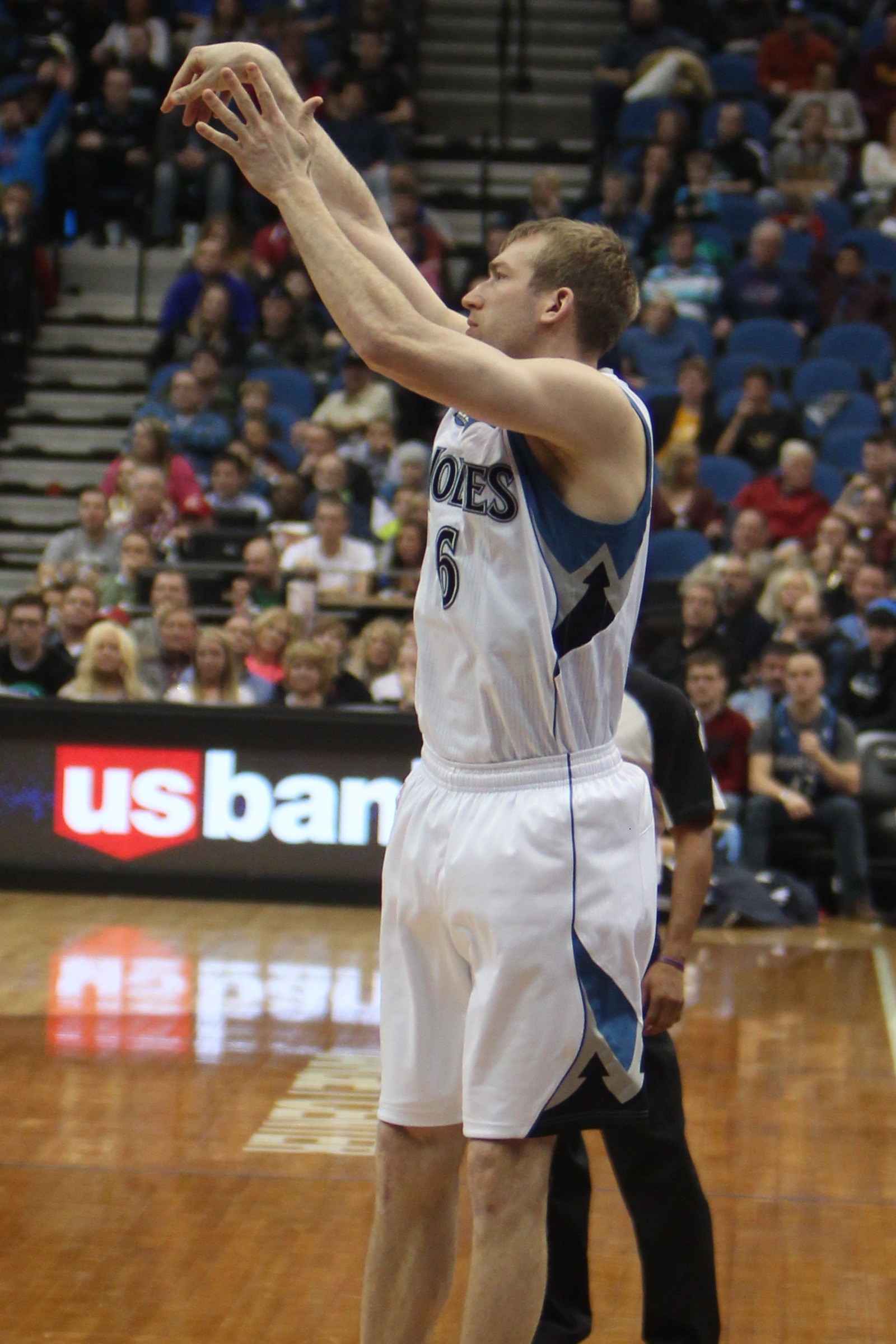 Robbie Hummel at the Target Center